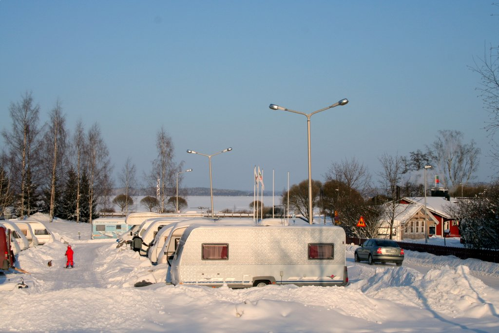 Messilä camping in Hollola, Finland